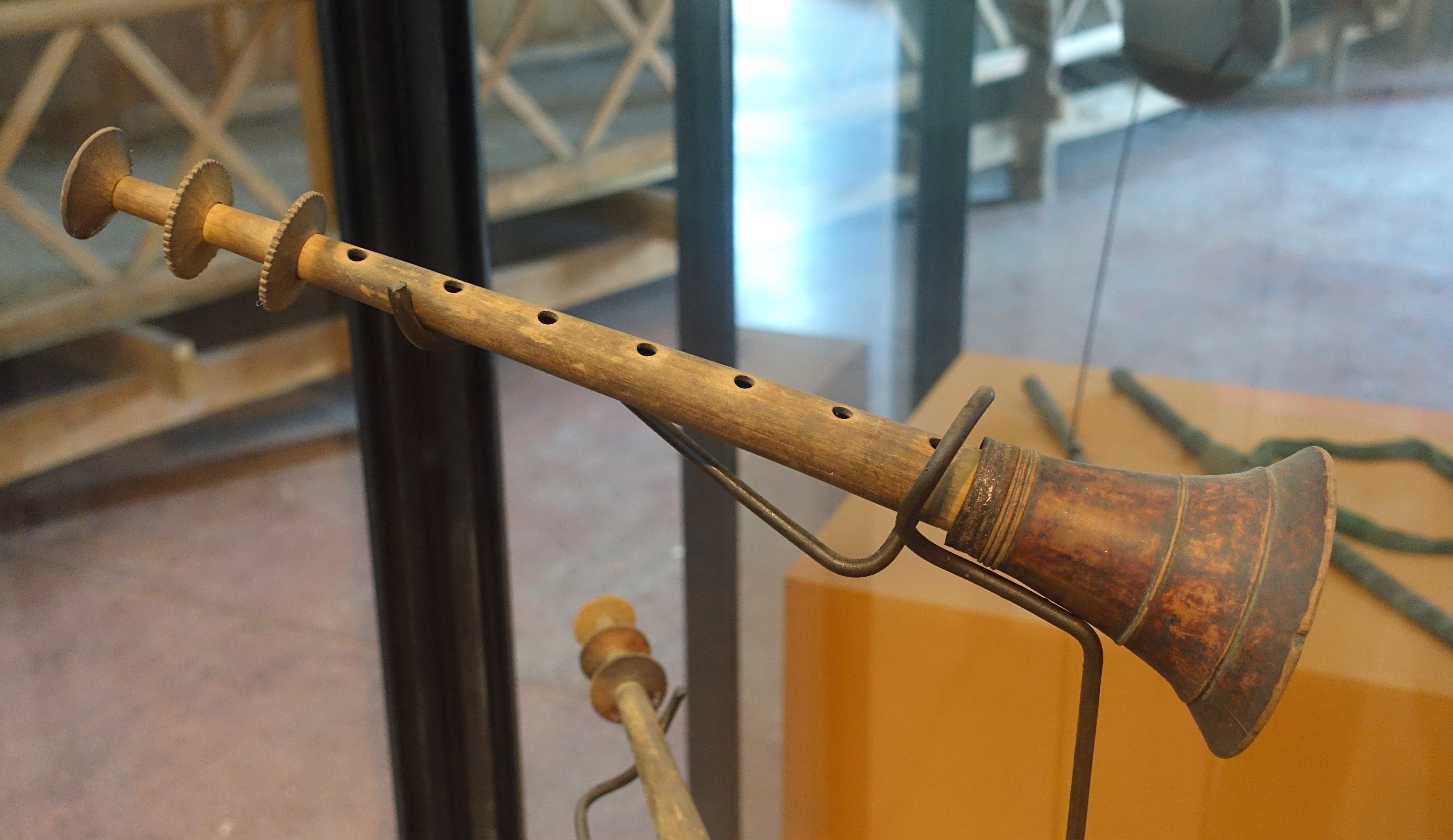 Exhibit in the Vietnam Museum of Ethnology - Hanoi, Vietnam.